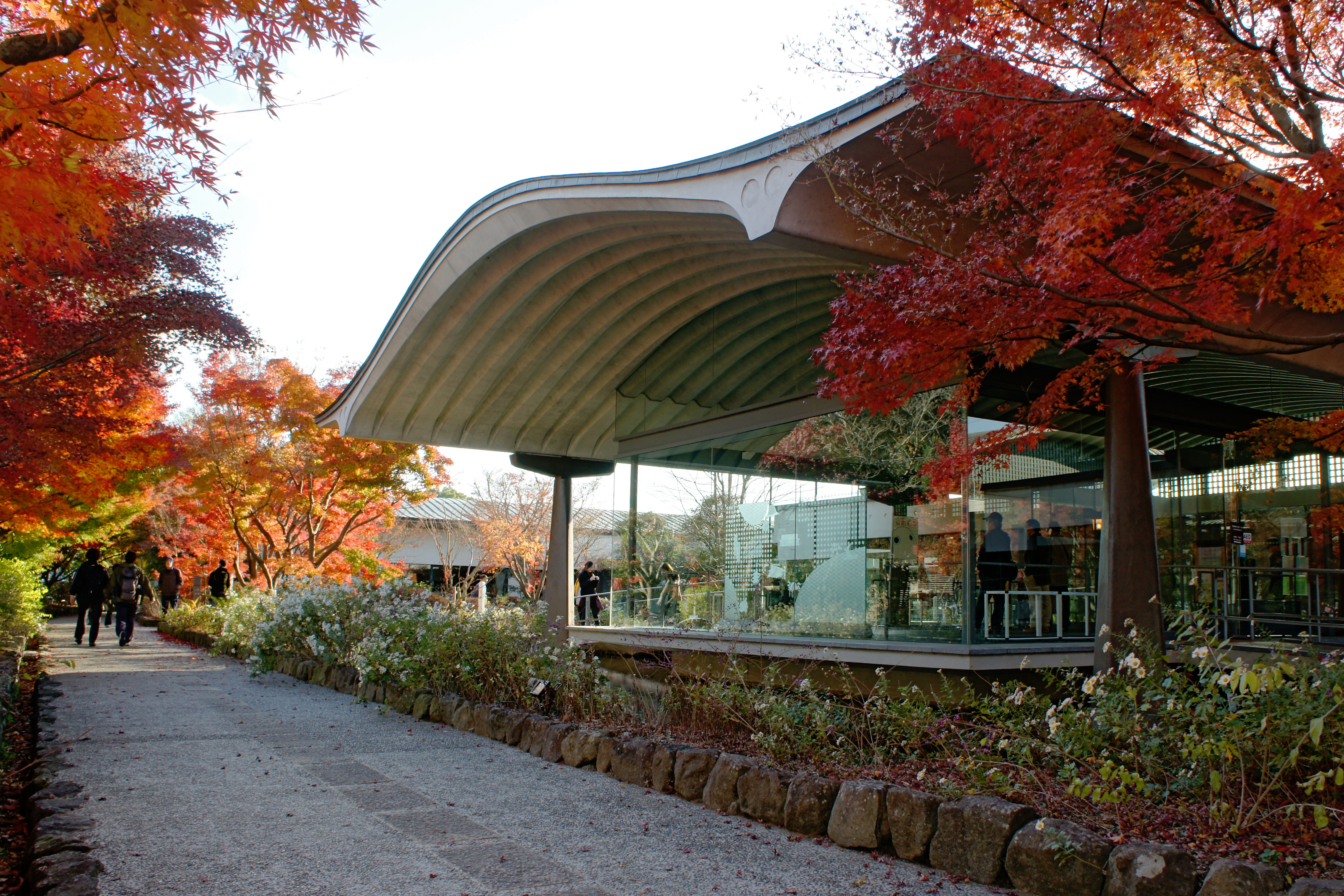 Genji Museum in Uji, Kyoto prefecture, Japan.